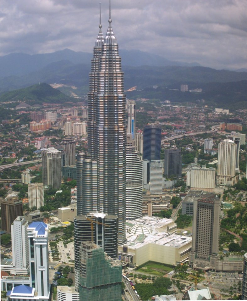 Petronas Towers as viewed from the KL Communication Tower. This is a little bot winky I'm afraid.